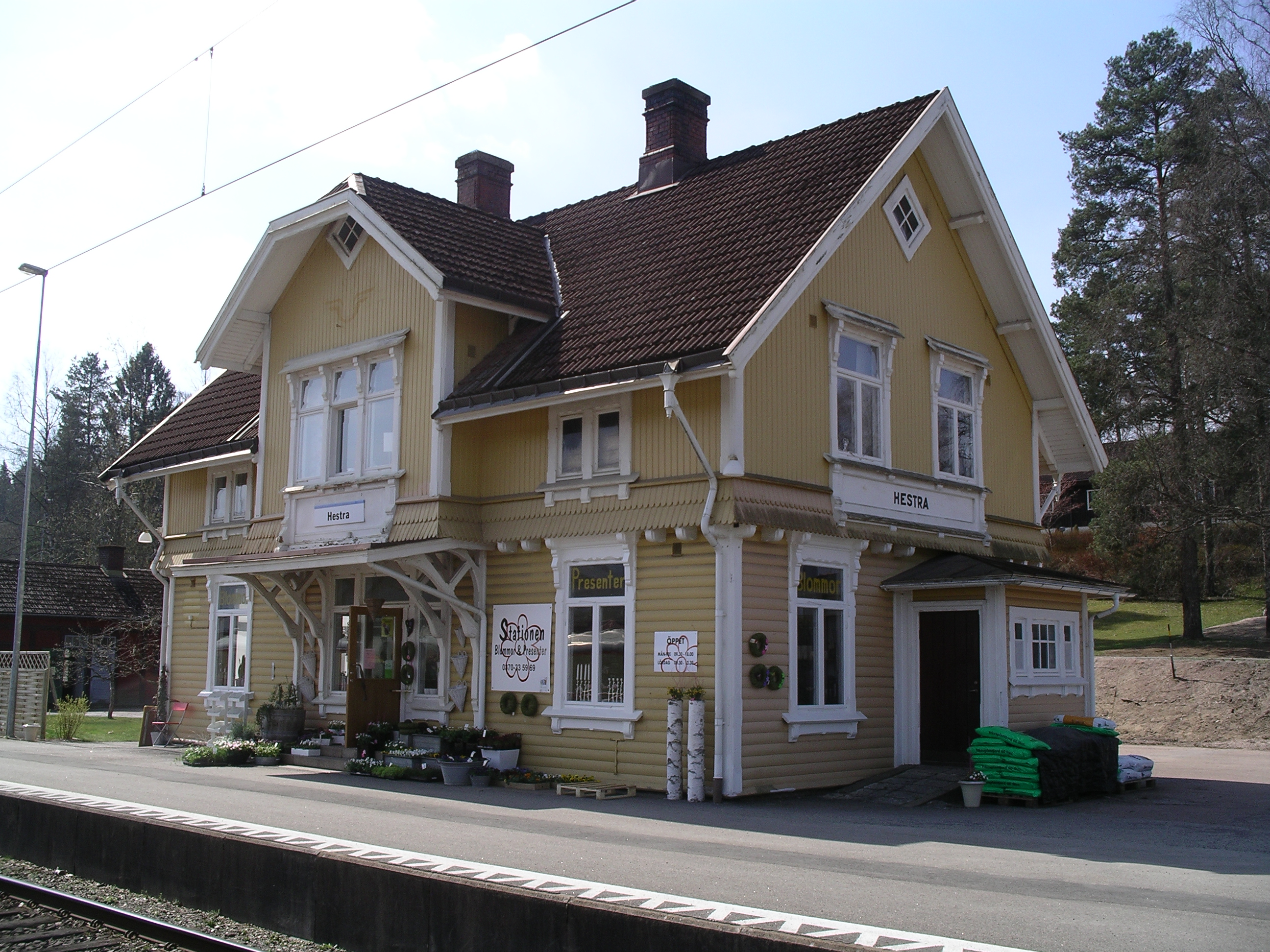 Railway station Hestra in Sweden